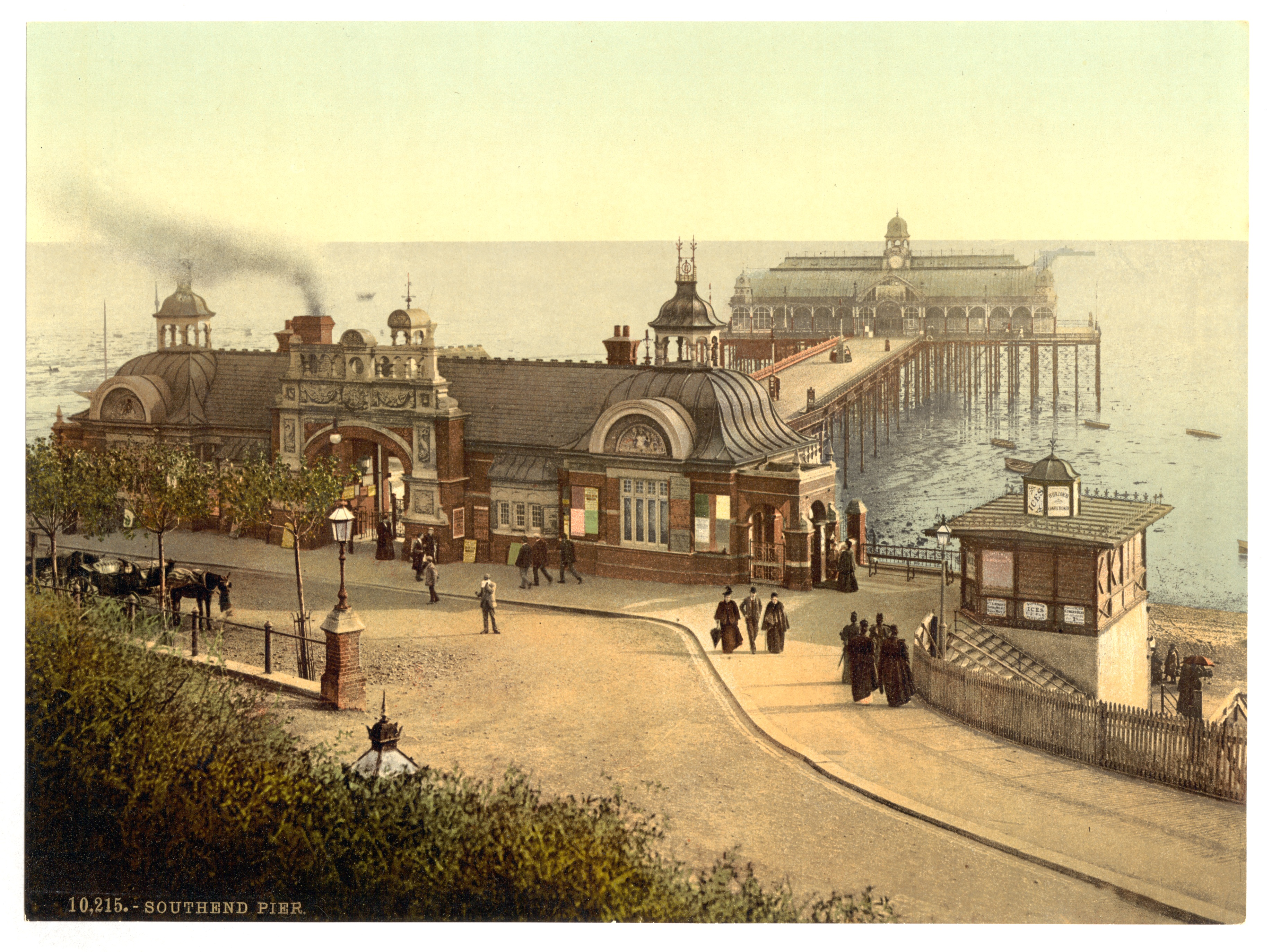 Forms part of: Views of the British Isles, in the Photochrom print collection.; More information about the Photochrom Print Collection is available at Title from the Detroit Publishing Co., Catalogue J-foreign section, Detroit, Mich. : Detroit Publishing Company, 1905.; Print no. "10215".